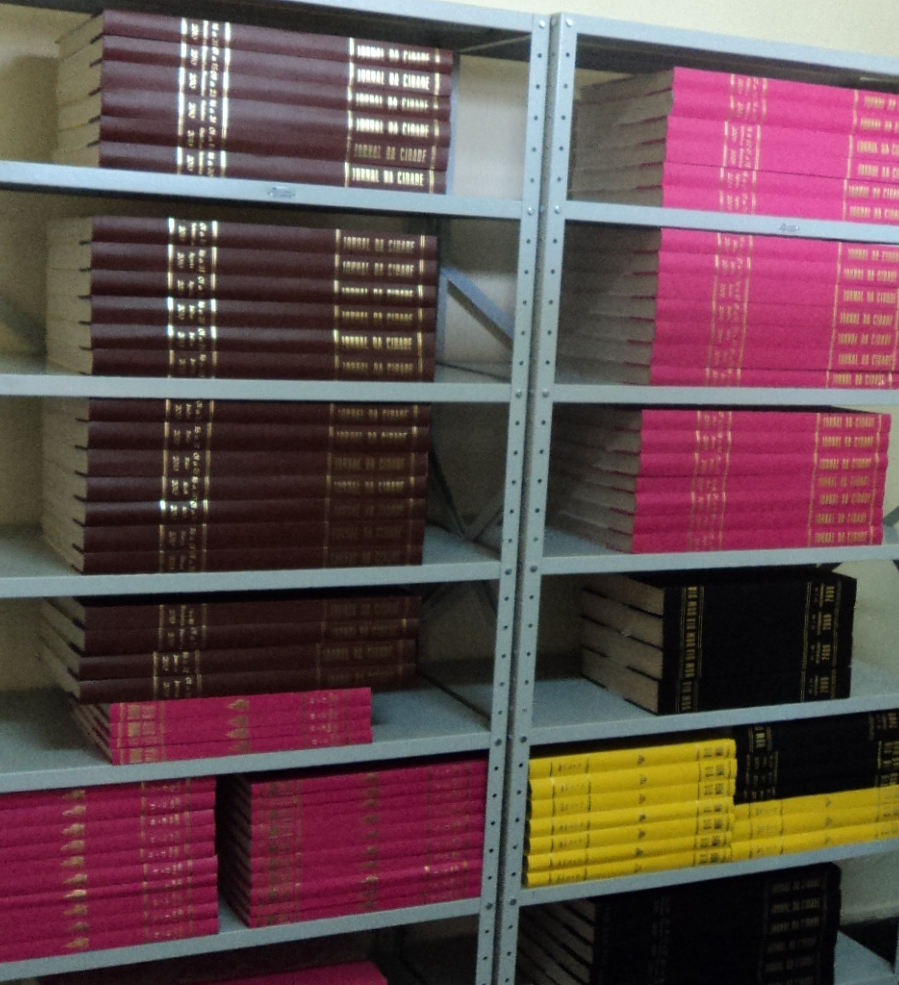 Bauru Historical Museum Collection